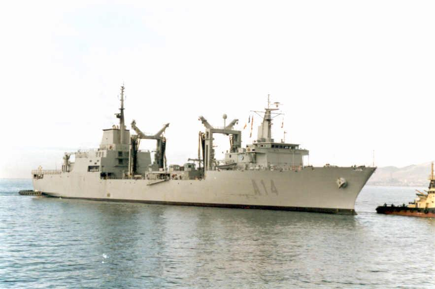 spanish oil tanker Patiño